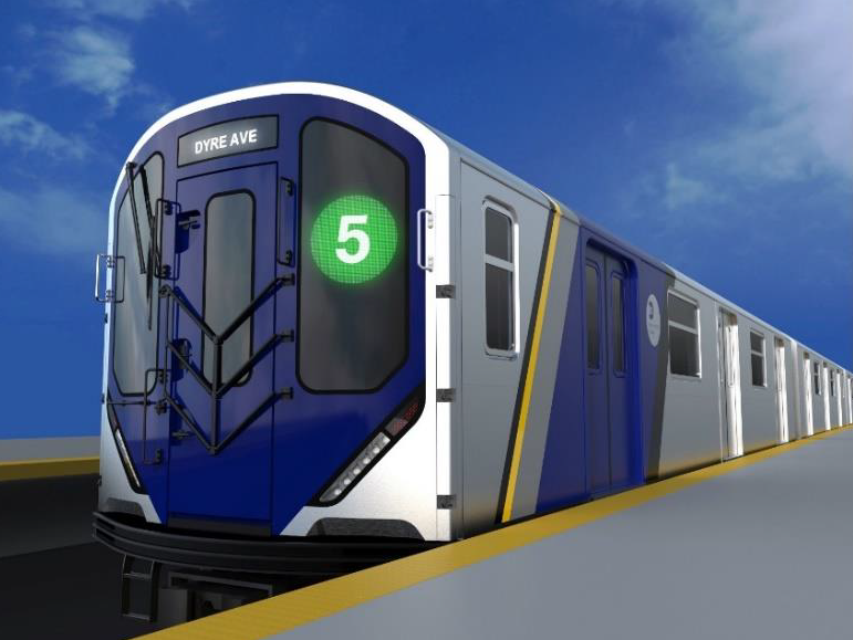 MTA New York City Transit on Feb. 24, 2020 announced plans to develop and purchase up to 949 new subway cars with an open-gangway configuration, designed for the numbered lines, that would increase passenger flow to allow customers to move freely between cars, and have the potential to improve dwell times at stations and increase capacity.